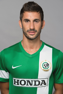 Alon Turjeman אלון תורג'מן